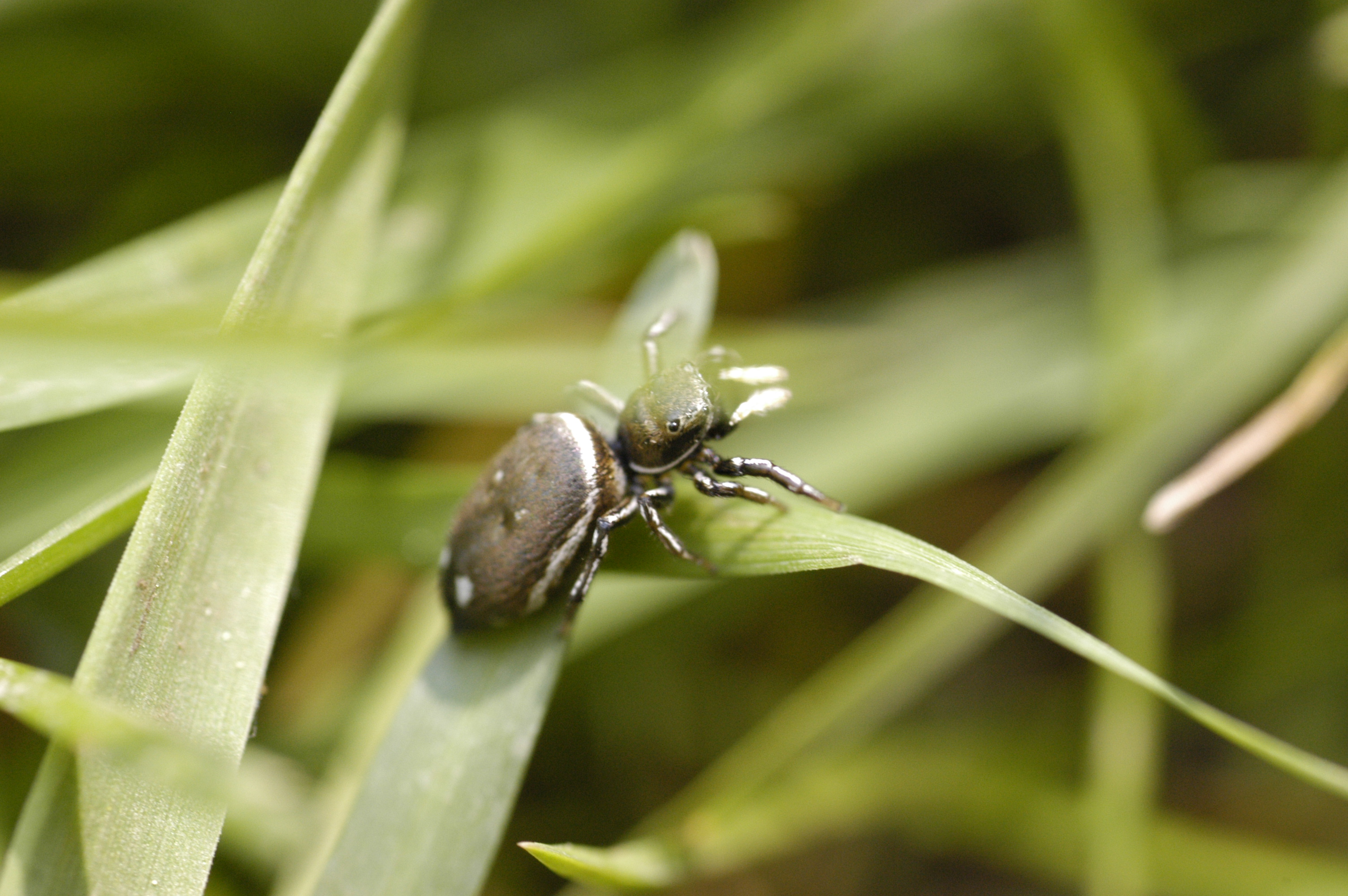 Heliophanus on grass. Perhaps Heliophanus aeneus